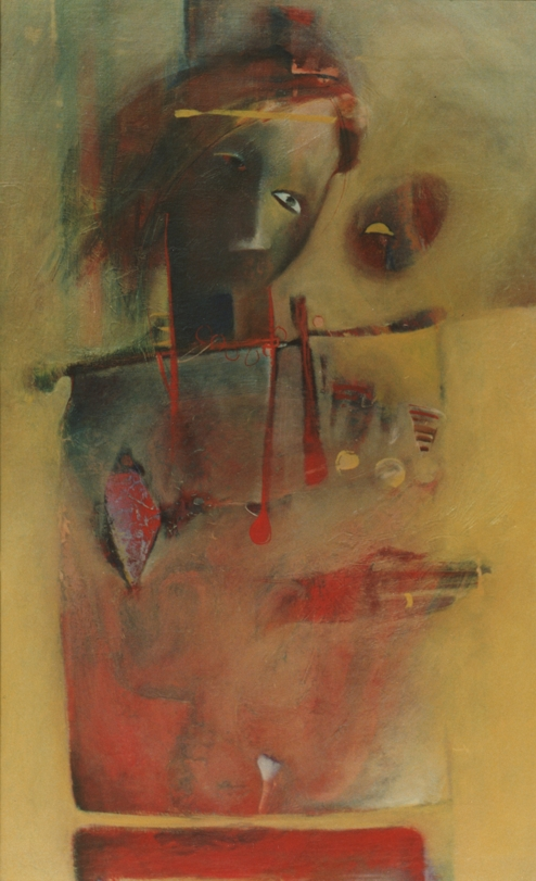 Tuzson-Berczeli Péter: Dream (oil, canvas 75×100 cm, 1988)